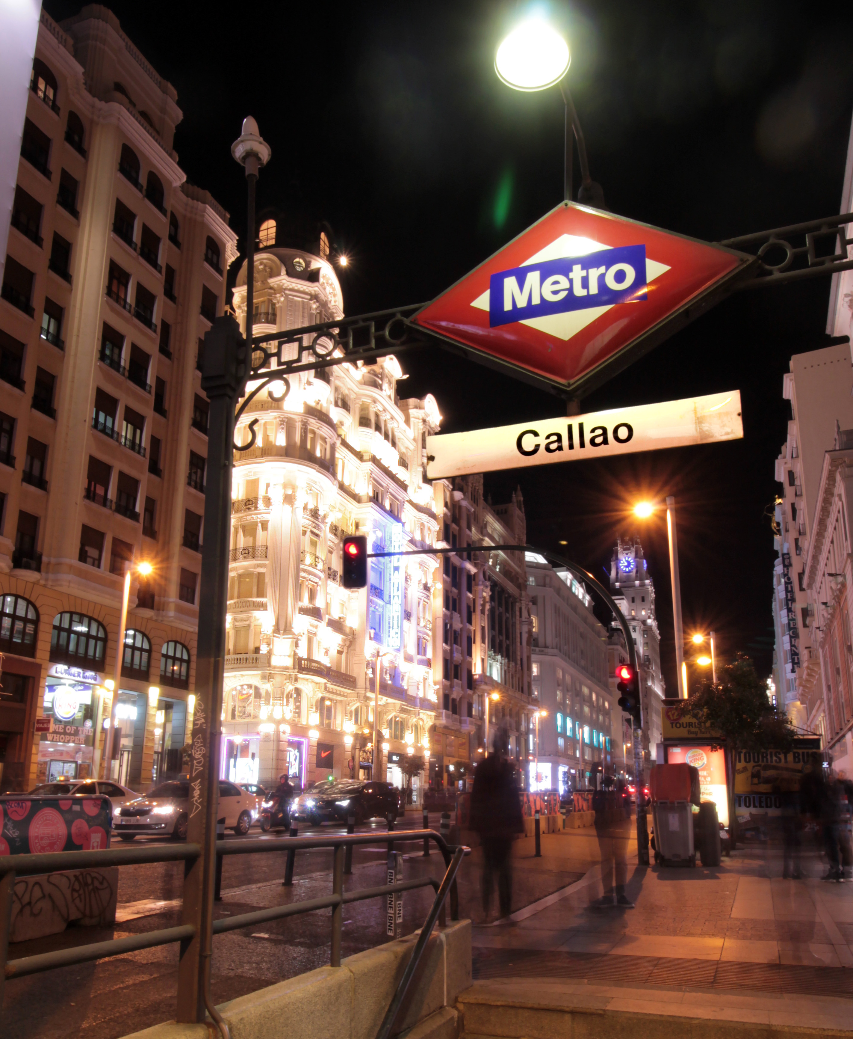 Entrance of Callao metro station in Madrid (Spain). Background: Gran Vía (avenue).